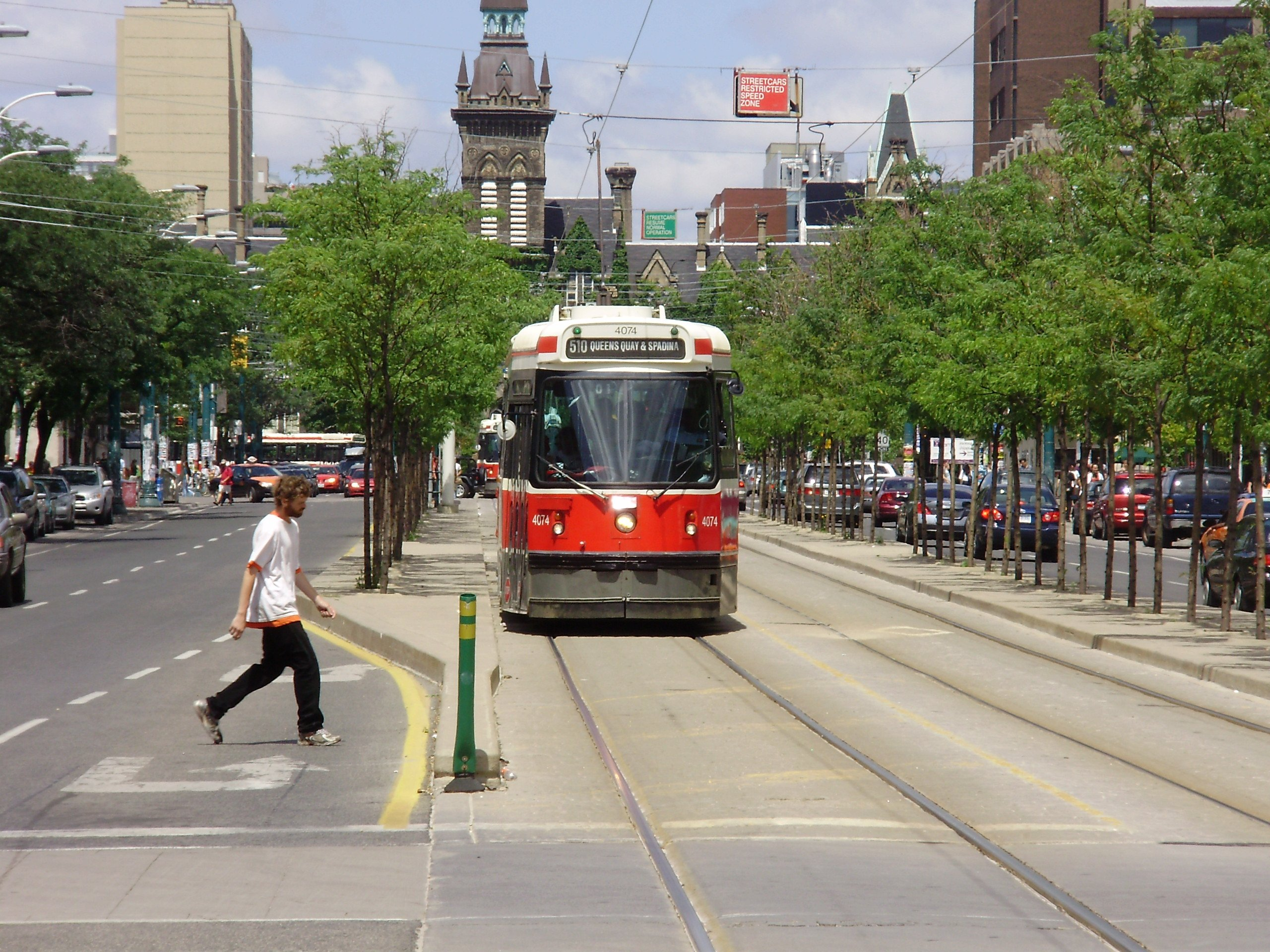 The Toronto Transit Commission's CLRV #4074, serving the 510 Spadina streetcar route, proceeds south along Spadina Avenue in its private right-of-way with a second CLRV close behind. This particular streetcar is not following the entire route, scheduled for short turning at Queens Quay instead of proceeding to the route's southern terminus at Union Station.